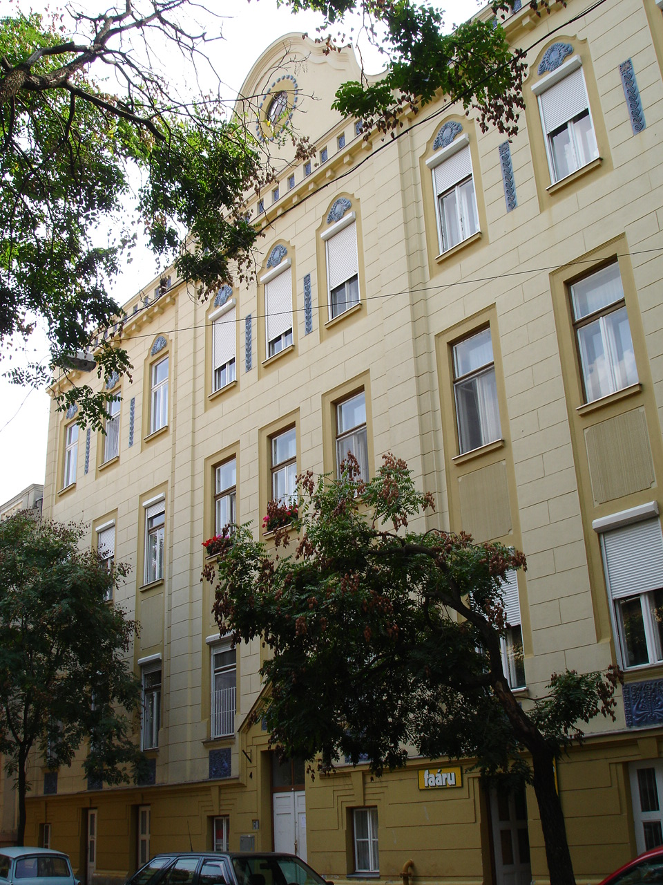 Raichle J. Ferenc architect 1907